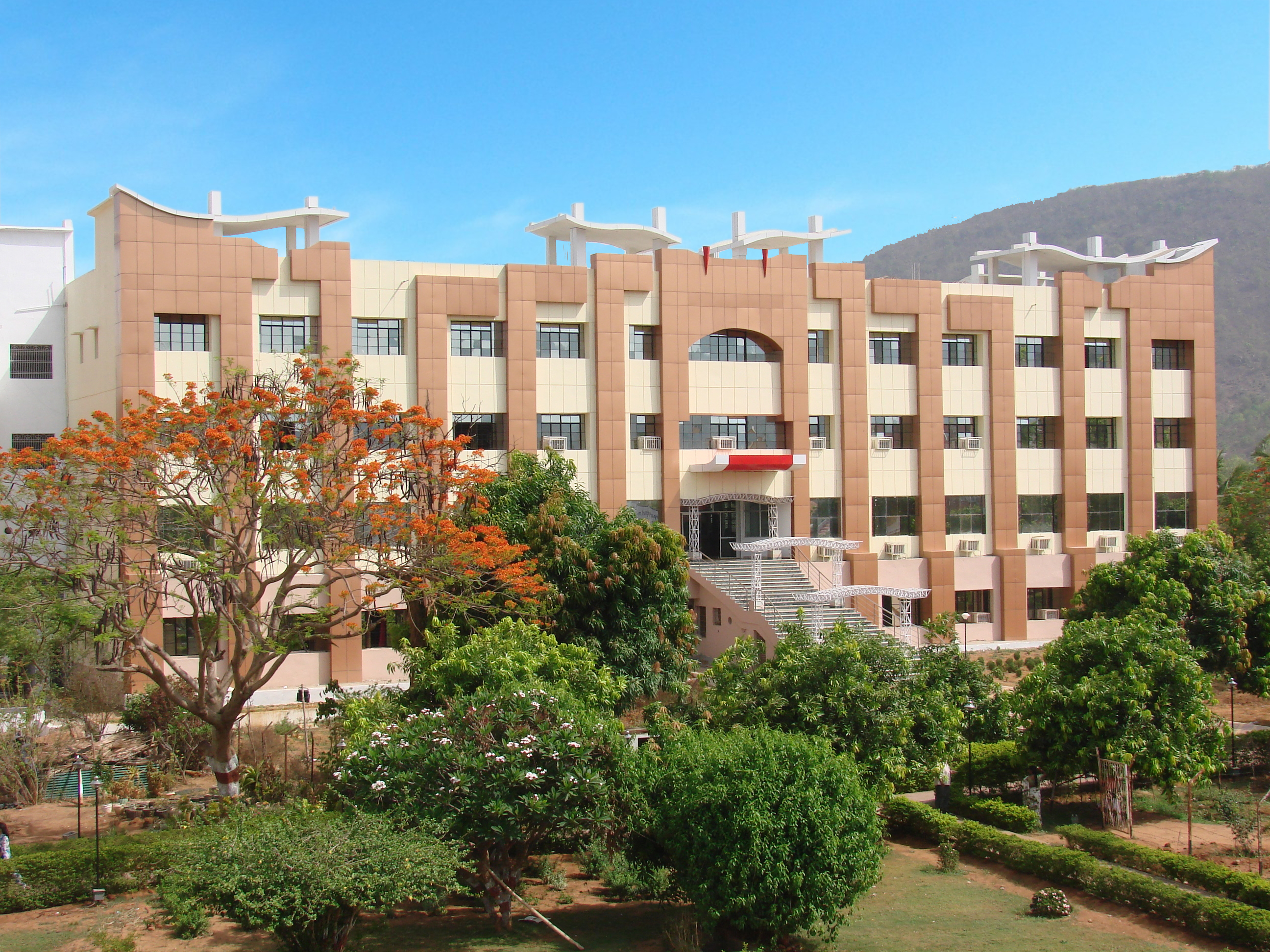 Knowledge Centre, GIET